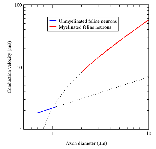 Same as Image:Conduction_velocity_and_myelination.svg, but with the white space trimmed. How do you crop images in SVG?